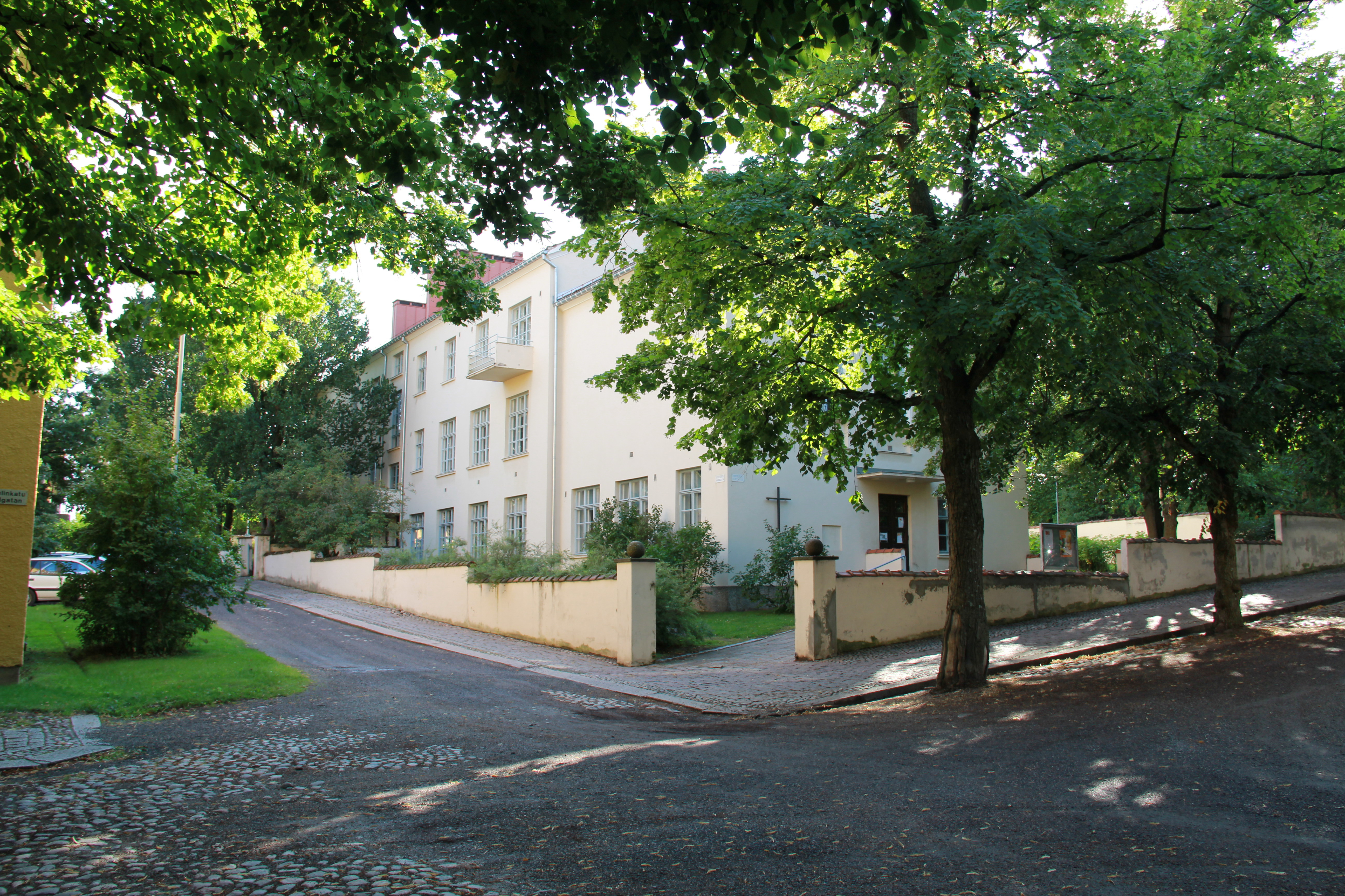 Martin's parish center, Turku, Finland. Completed in 1932, architect Albert Richardtson.